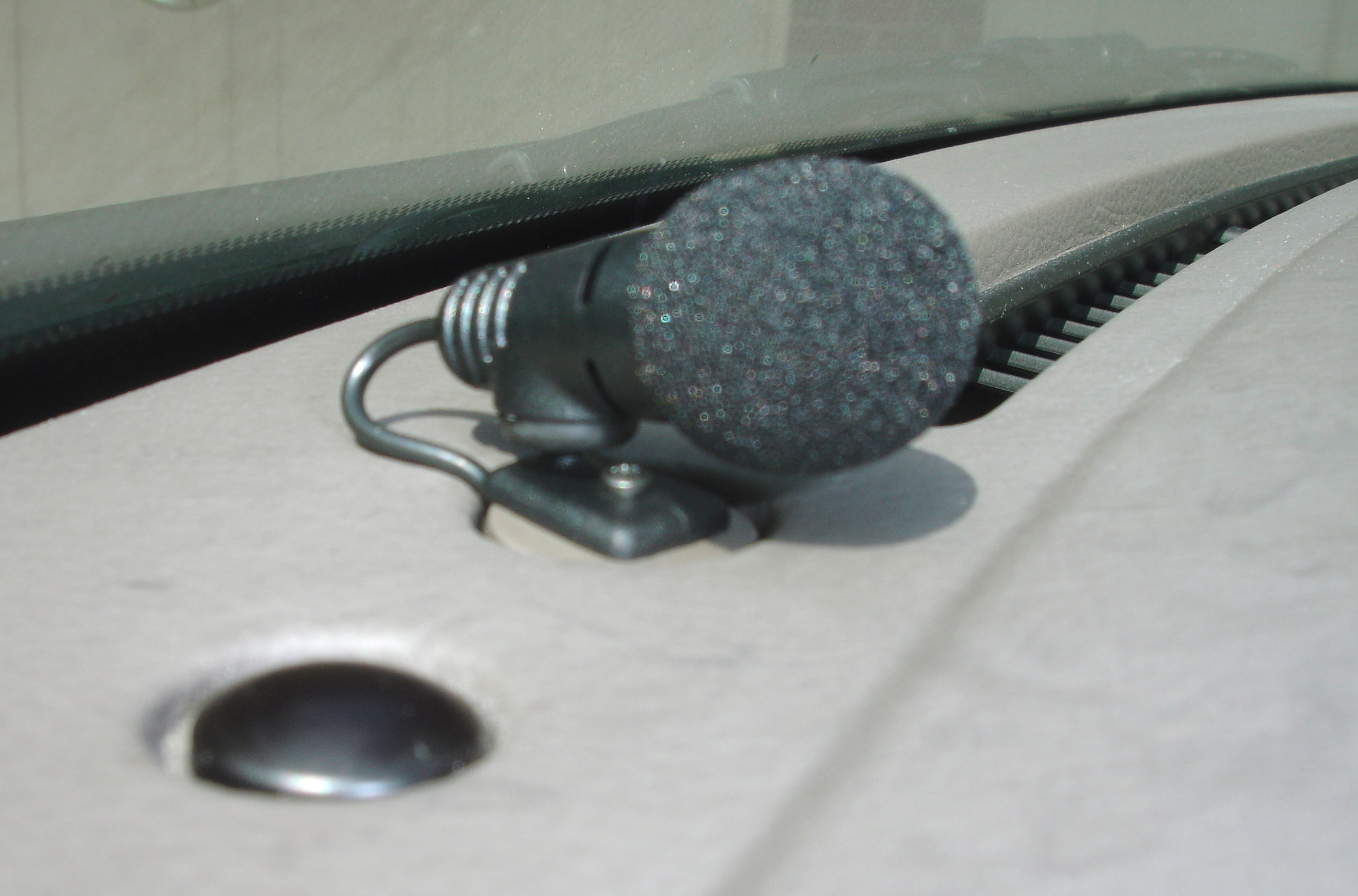 Sixth generation Toyota Camry with an external microphone for a Bluetooth handsfree microphone installed using the dashtop sensor spacer.